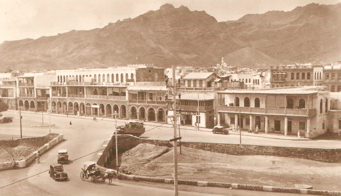 View of Esplanade Road, Crater (Aden). Cropped from a postcard from the late 1930s, postally used in 1952.